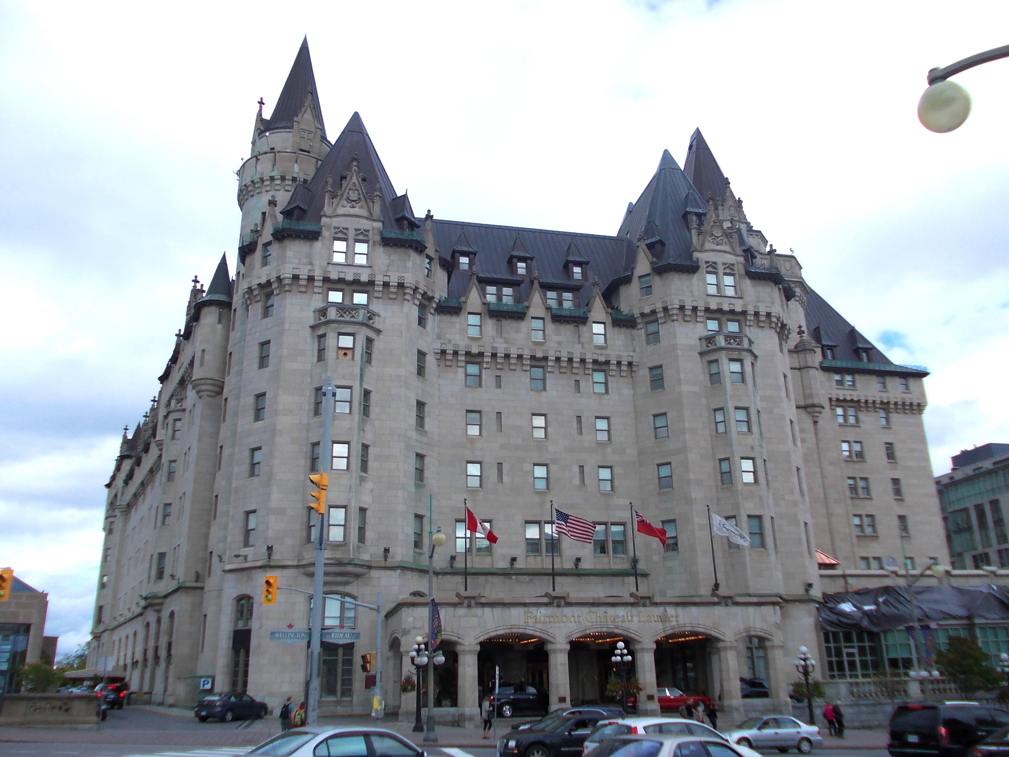 Hotel Chateau Laurier in Ottawa